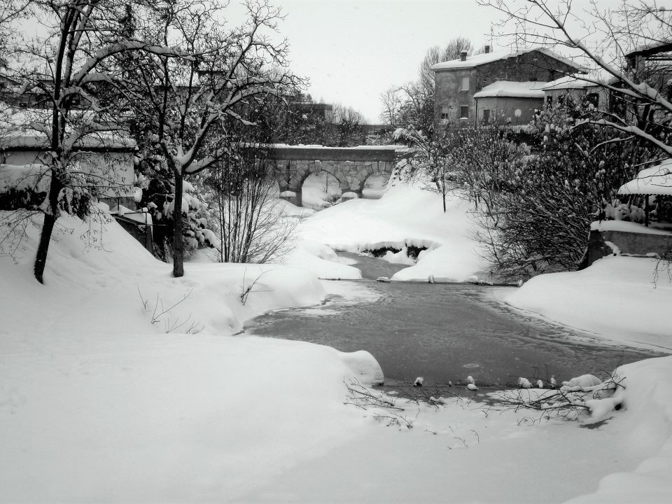 Photo taken during the February 2012 snowstorm